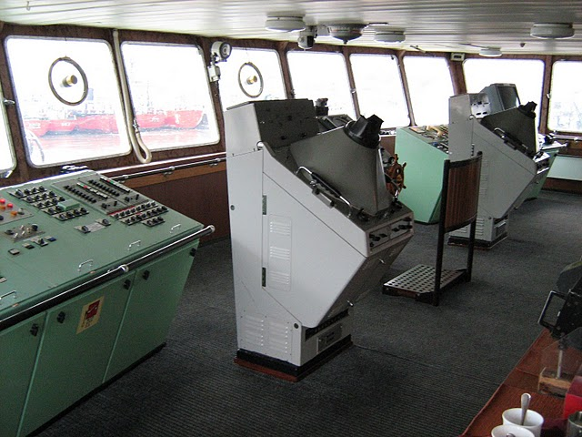 The bridge of the M/V Polar Pioneer